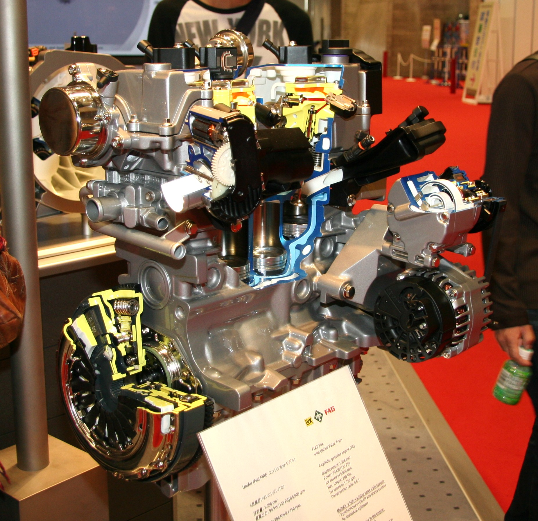 Fiat 1.4L engine